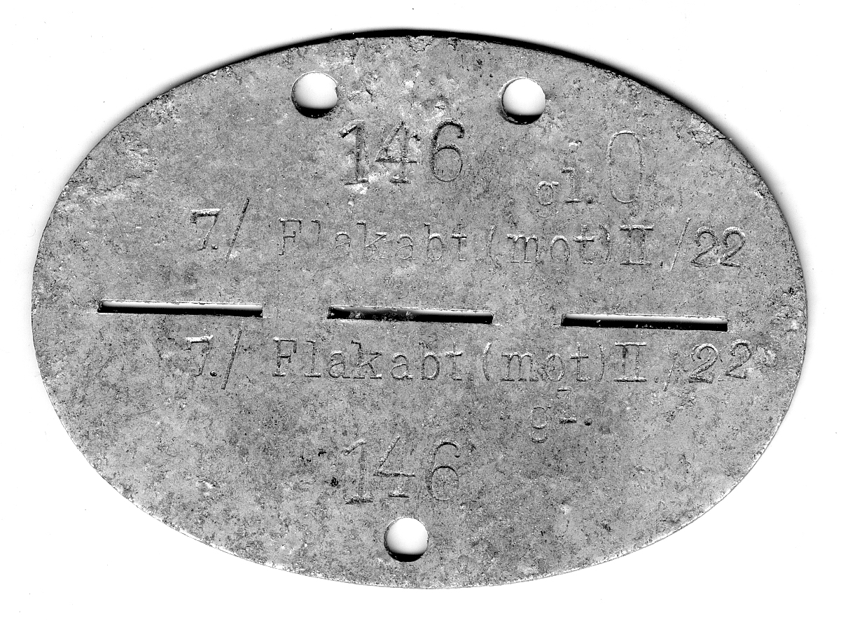 Dog tags (military identification)